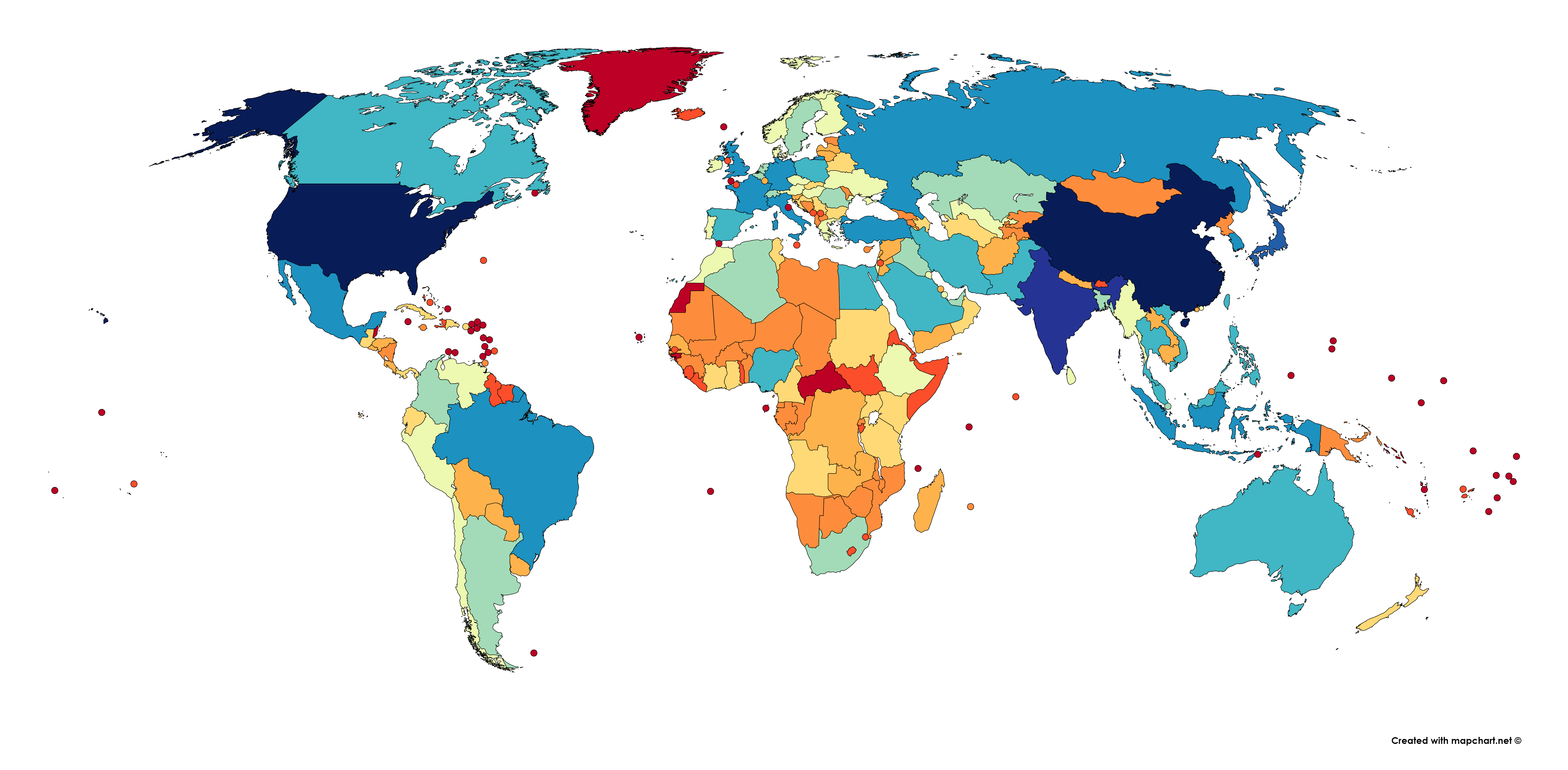 This is a map showing the countries & territories of the world by their estimated PPP GDP in 2020. I used the IMF's April 2020 WEO Database for most countries and dependencies, but for those without data, I used the latest data available from the CIA World Factbook (for North Korea, Venezuela, Cuba, Greenland, and tons of small island nations and territories. I made the map at